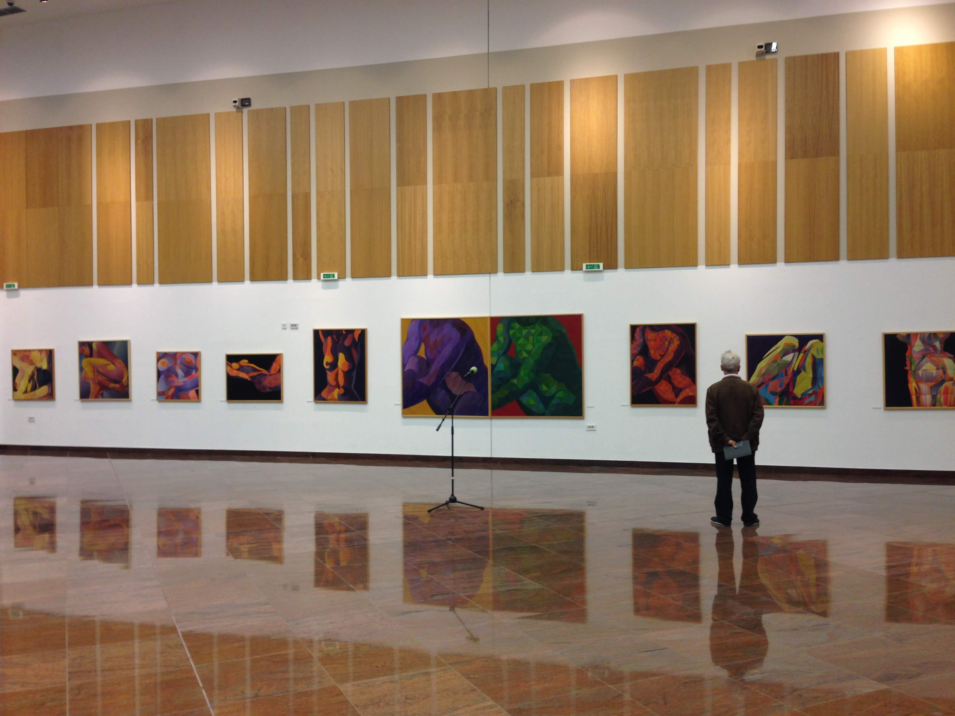 Officers' Club Exhibition Space in Niš